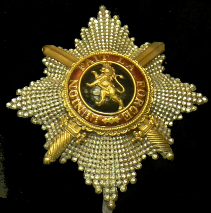 Chiang Kai-shek's plaque of Grand Cordon Order of Léopold, exhibited at his memorial in Taipei